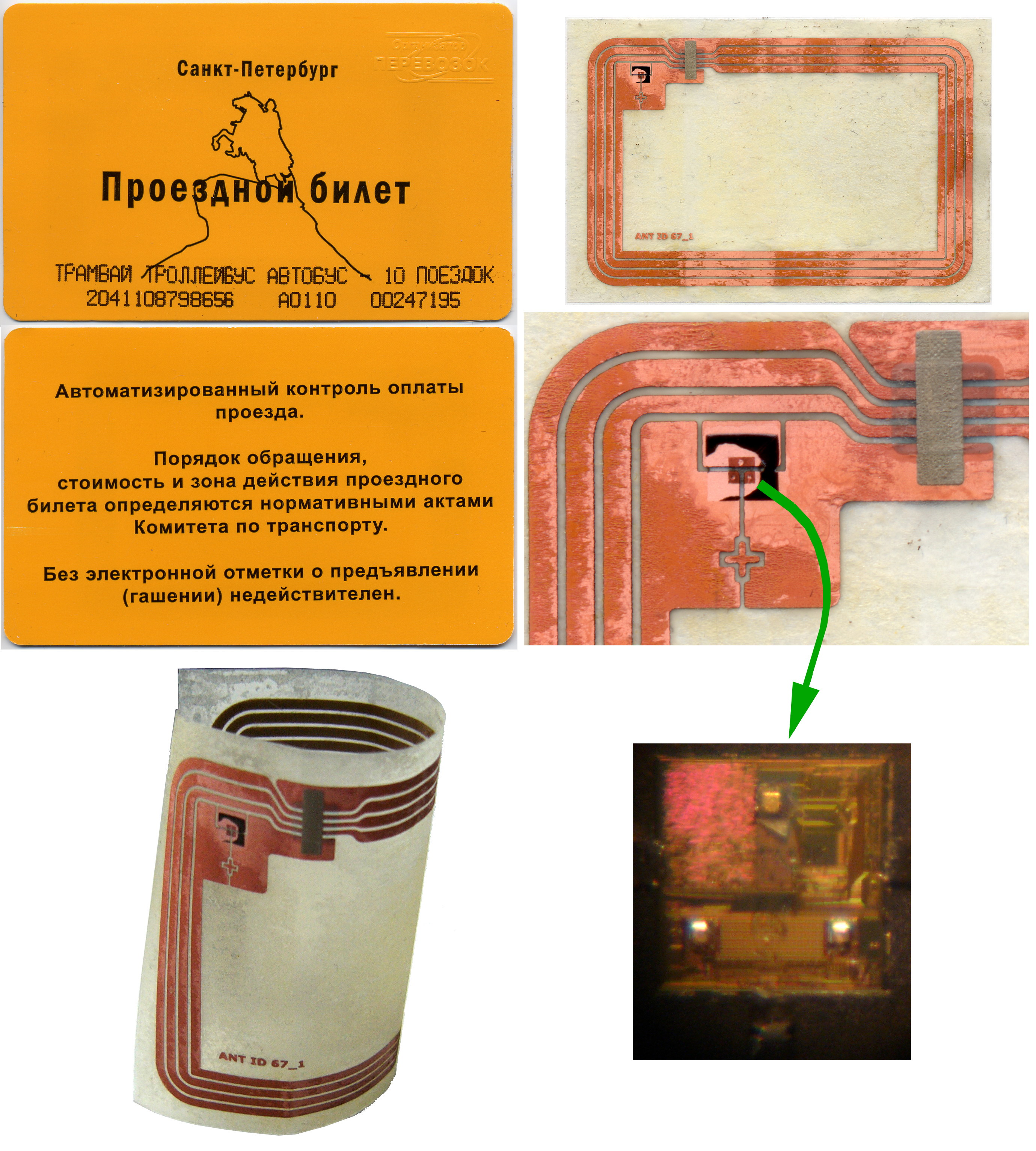 Russian paper based 10 trips electronic (RFID) transit pass from Saint-Petersburg 2010. The IC photo has been made through microscope with 70-80x magnification